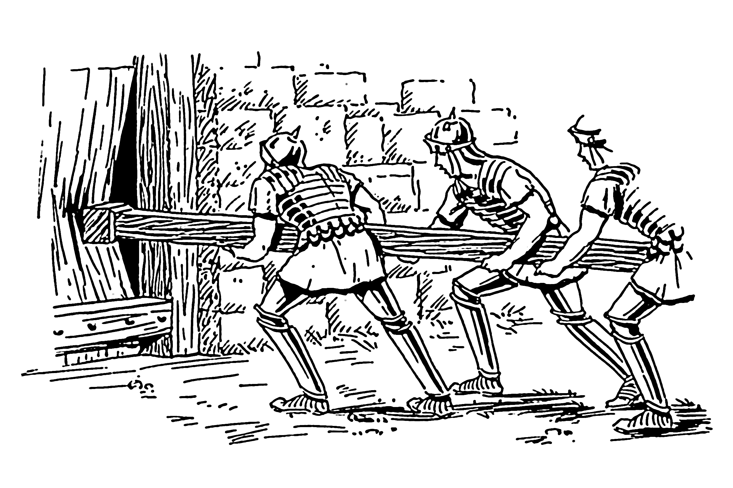 Line art drawing of a battering ram in use.